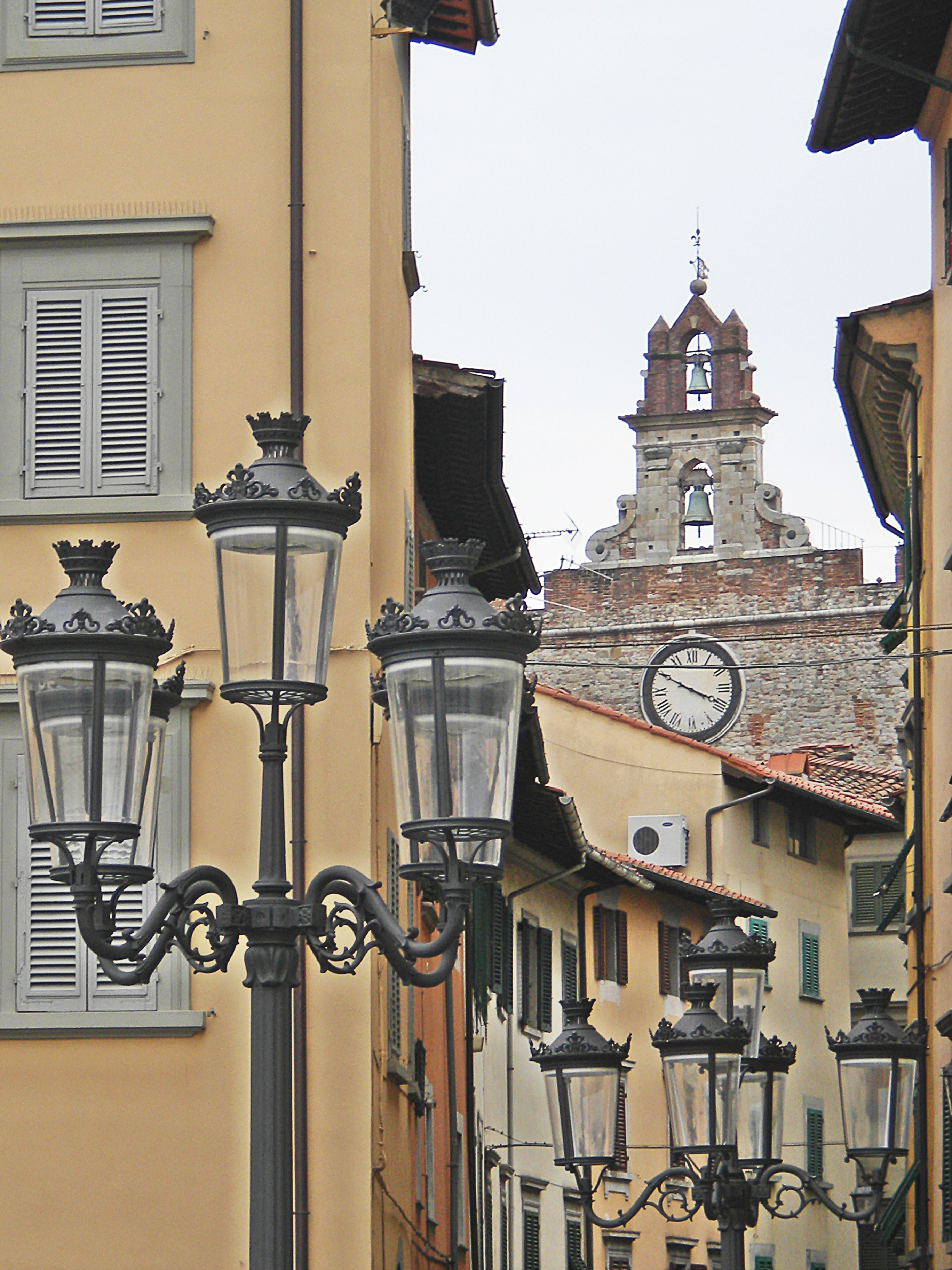 over the lamp